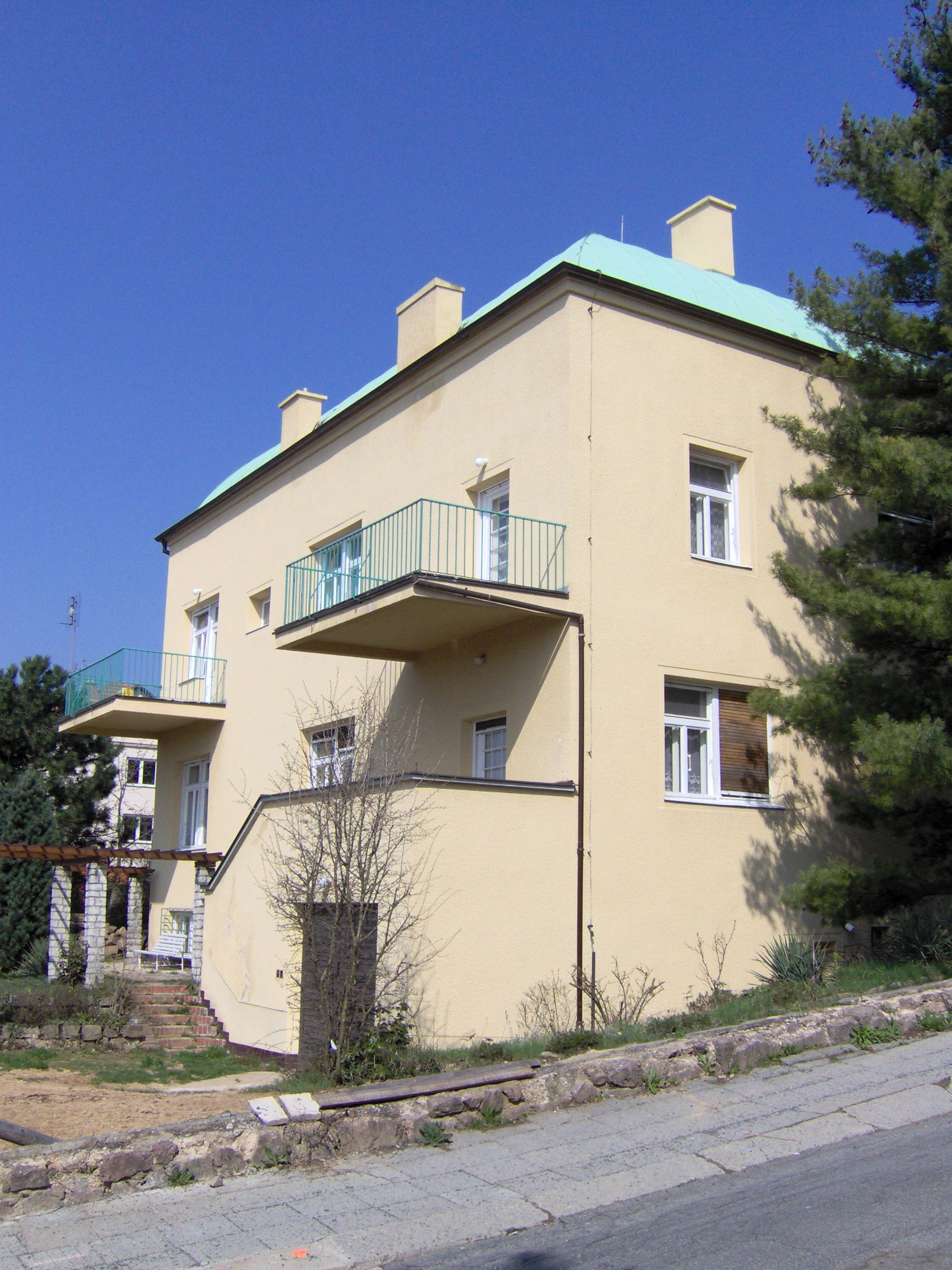 Villa, Brno, Czech Republic